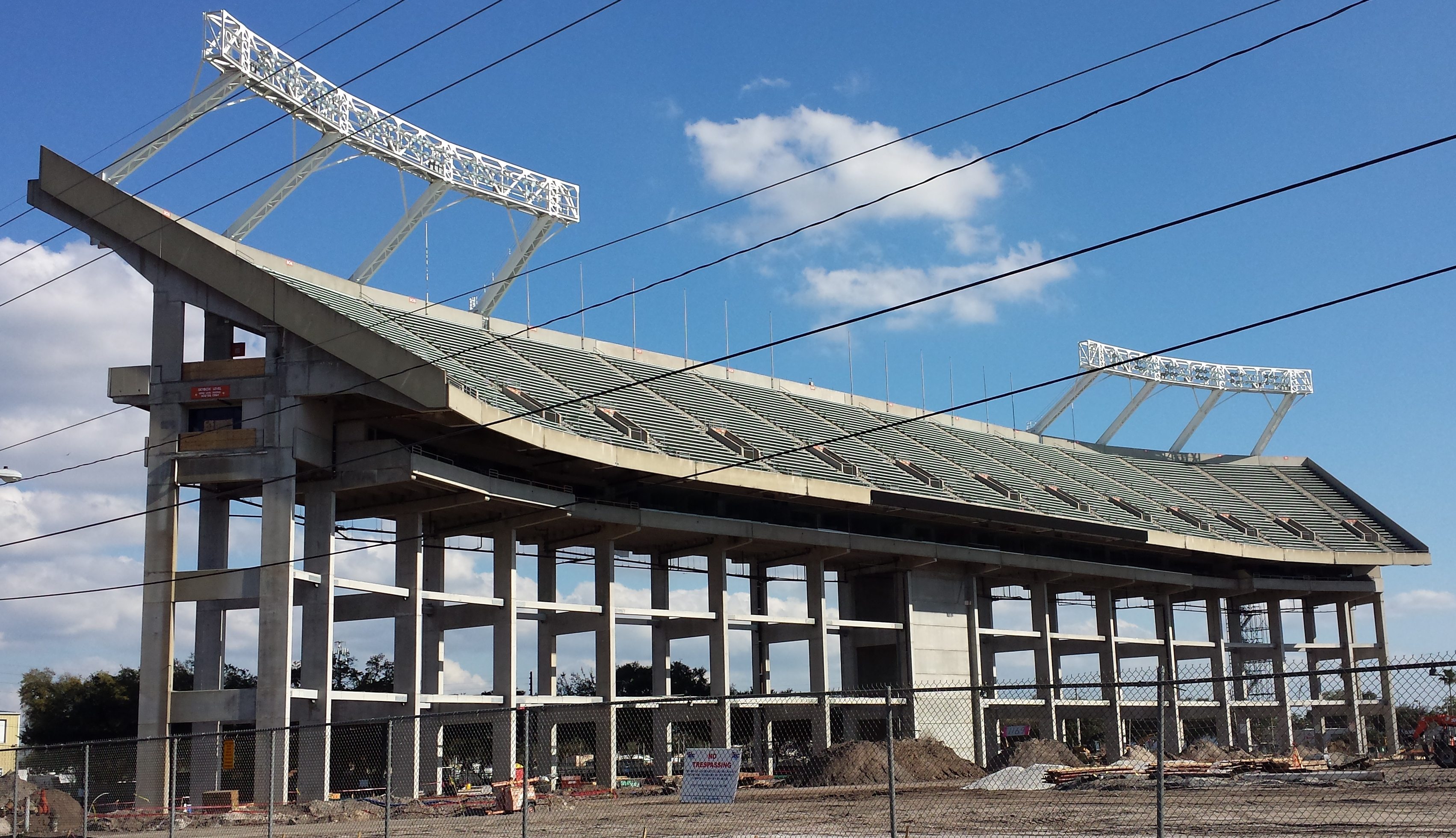 Photo of Citrus Bowl's upper deck (east side)